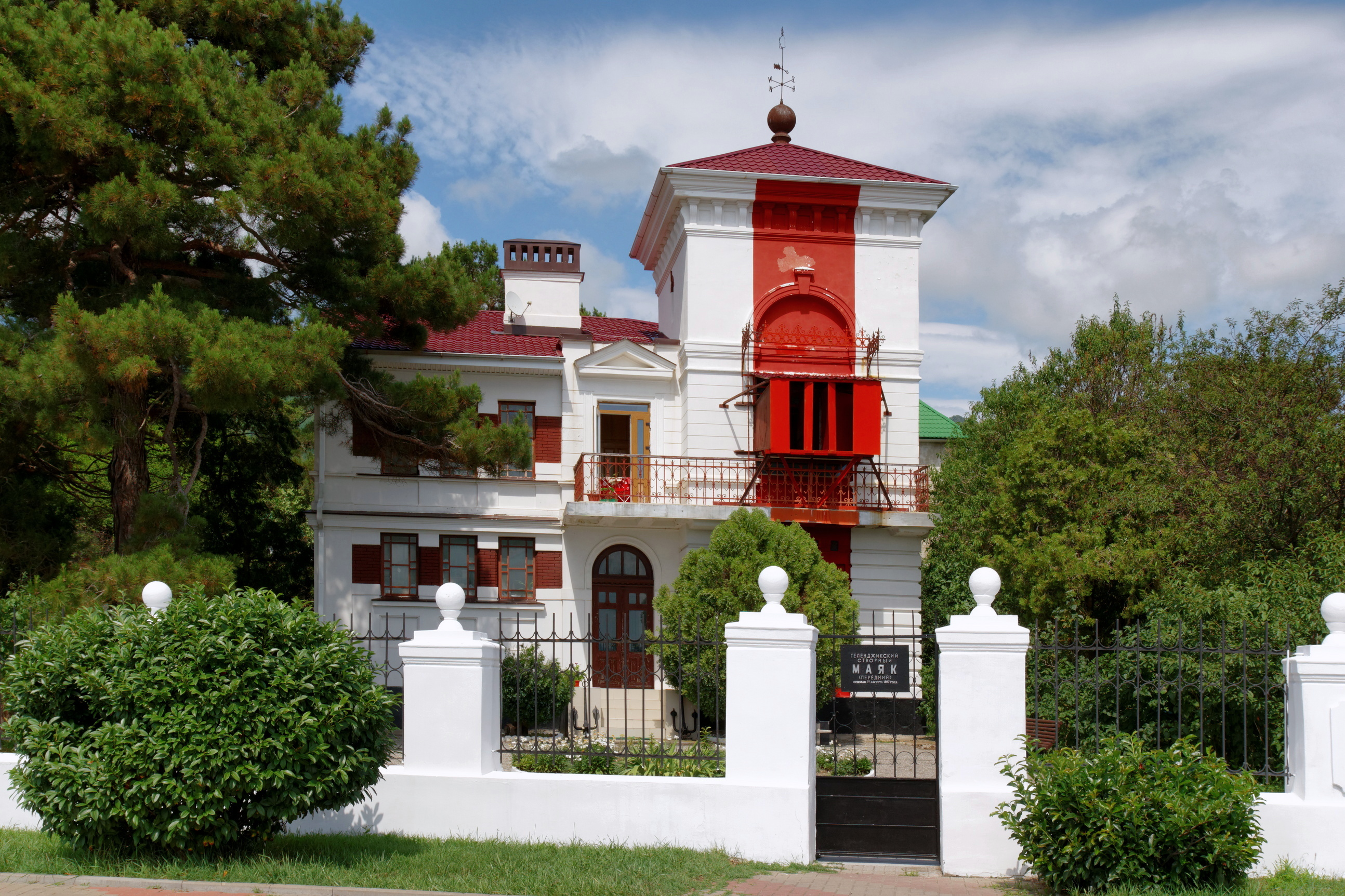 Gelendzhik, lighthouse